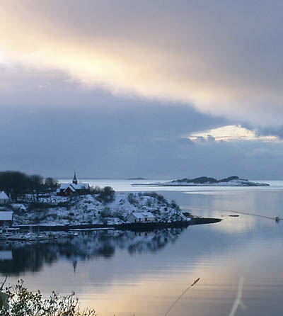 Bjugn Church of Bjugn municipality of Sør-Trøndelag, Norway; with the Bjugn fiord (Bjugnfjorden)